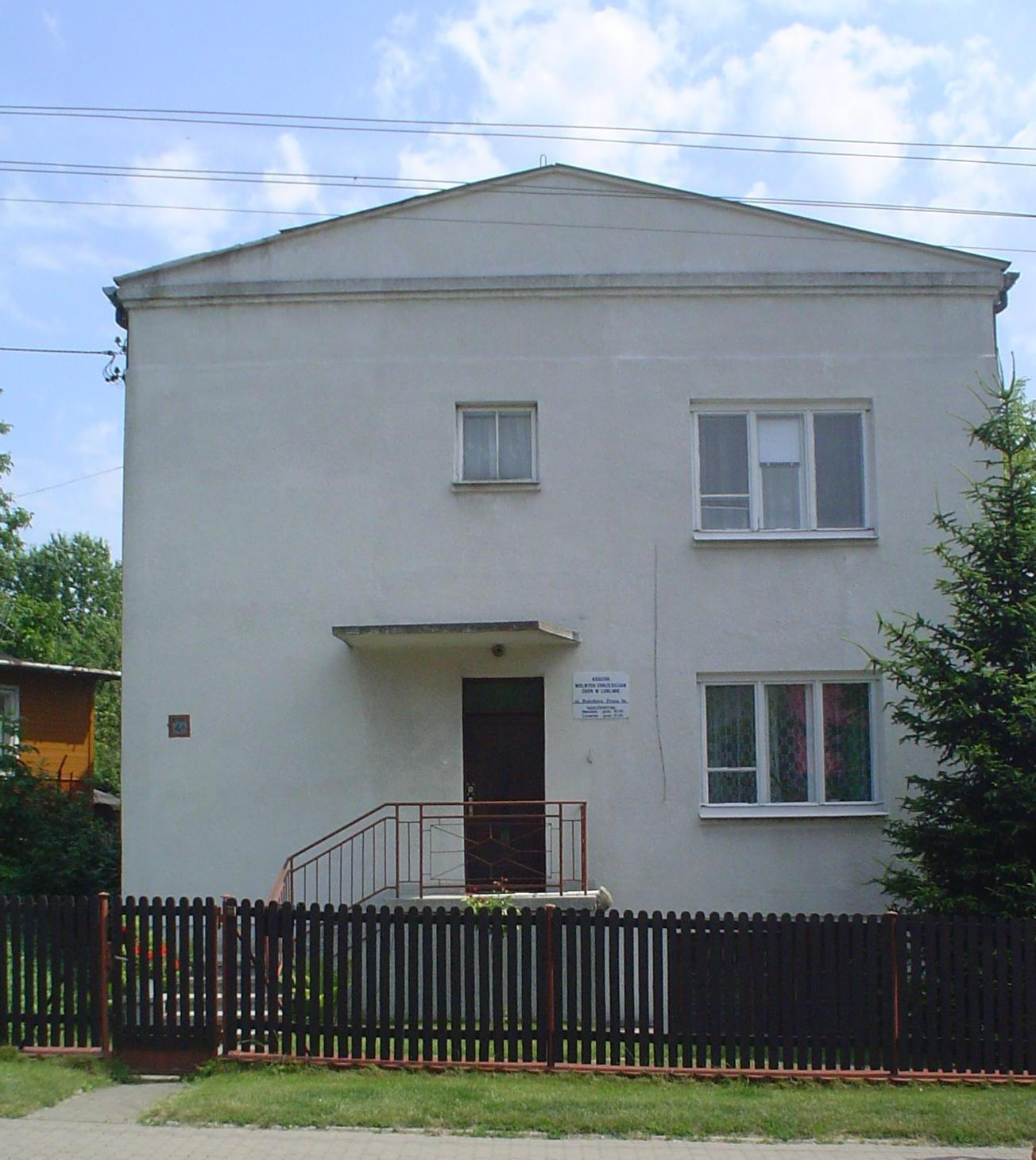 Open Brethren, Lublin, Poland